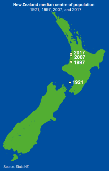 New Zealand median centre of population - 1921, 1997, 2007 and 2017